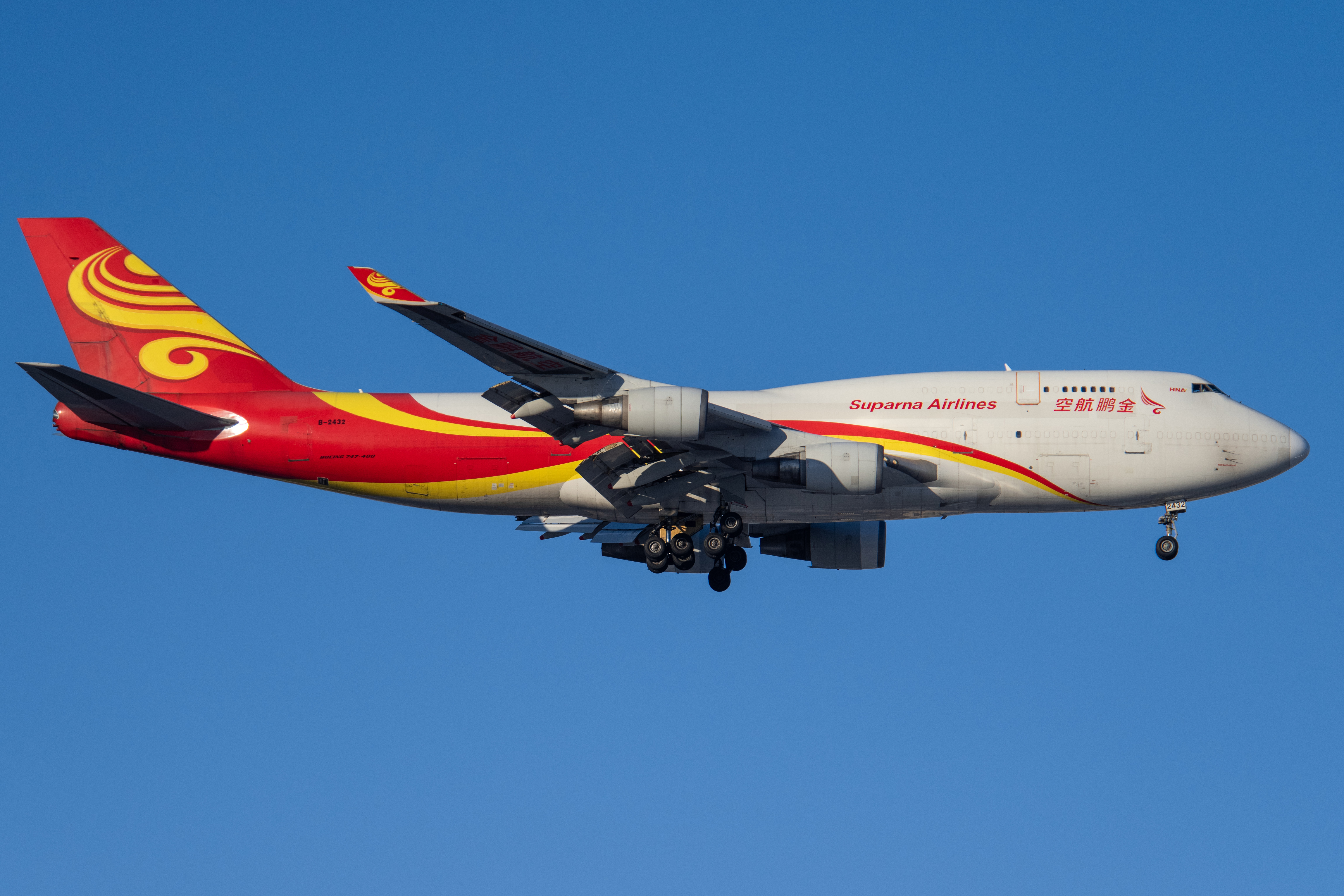 Yangtze River 7409 from Bratislava. Formerly ANA JA402A, this rare visitor is seen transporting medical supplies from Slovakia for the battle against coronavirus. After all, the aircraft itself is also a bit legendary for its 747-481→-481D→-481BDSF transition.